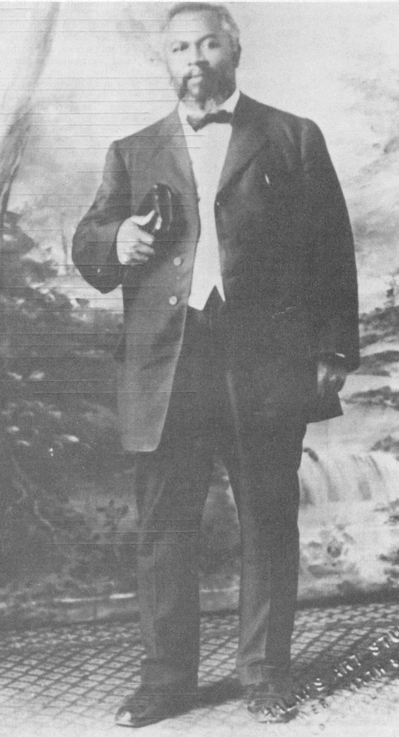 Picture from the early 1910s showing William Joseph Seymour (May 2, 1870 - September 28, 1922) was an African American minister, and an initiator of the Pentecostal religious movement.